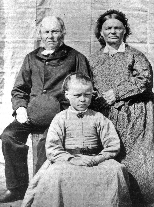 The Sámi priest and poet Anders Fjellner with his wife Christina and their 15 year old daughter Marta Eleonora. Photography from 1871 by Lotten von Düben.